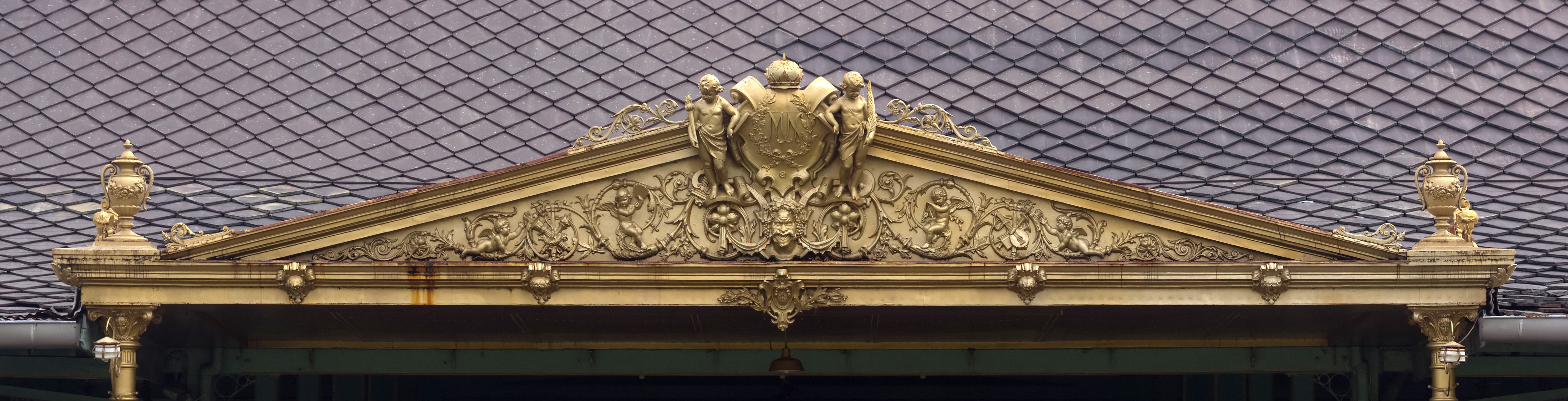 Entrance to Pendopo, Mangkunegaran Palace, Surakarta, 2016-10-09